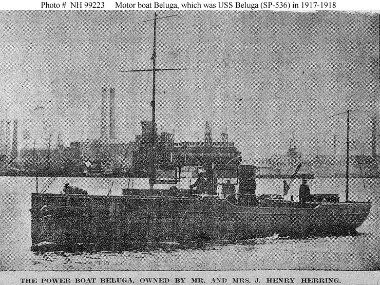 The motorboat Beluga prior to her World War I service as the United States Navy patrol vessel .